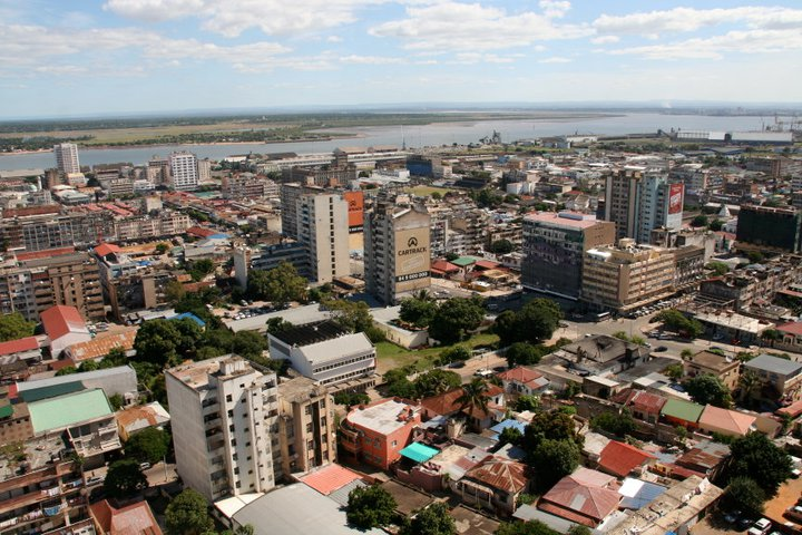 Maputo from the CFM building - Maputo do predio do CFM, photo by Sara Vannini